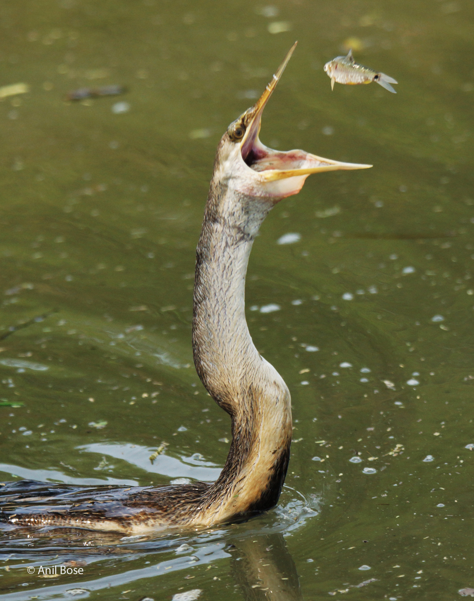 Darter catching fish at Bharatpur bird sanctuary